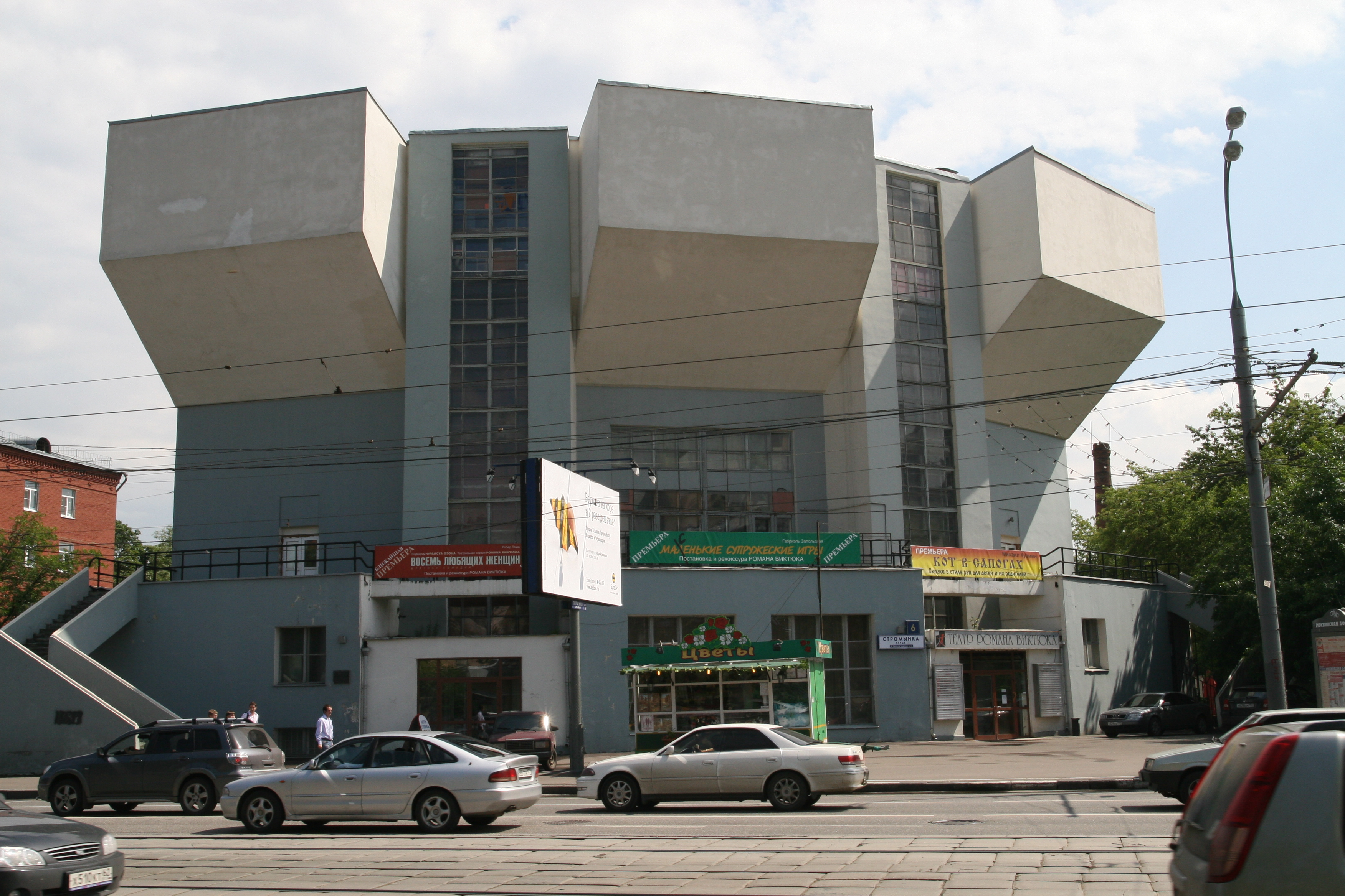 Rusakov Workers' Club by Konstantin Melnikov